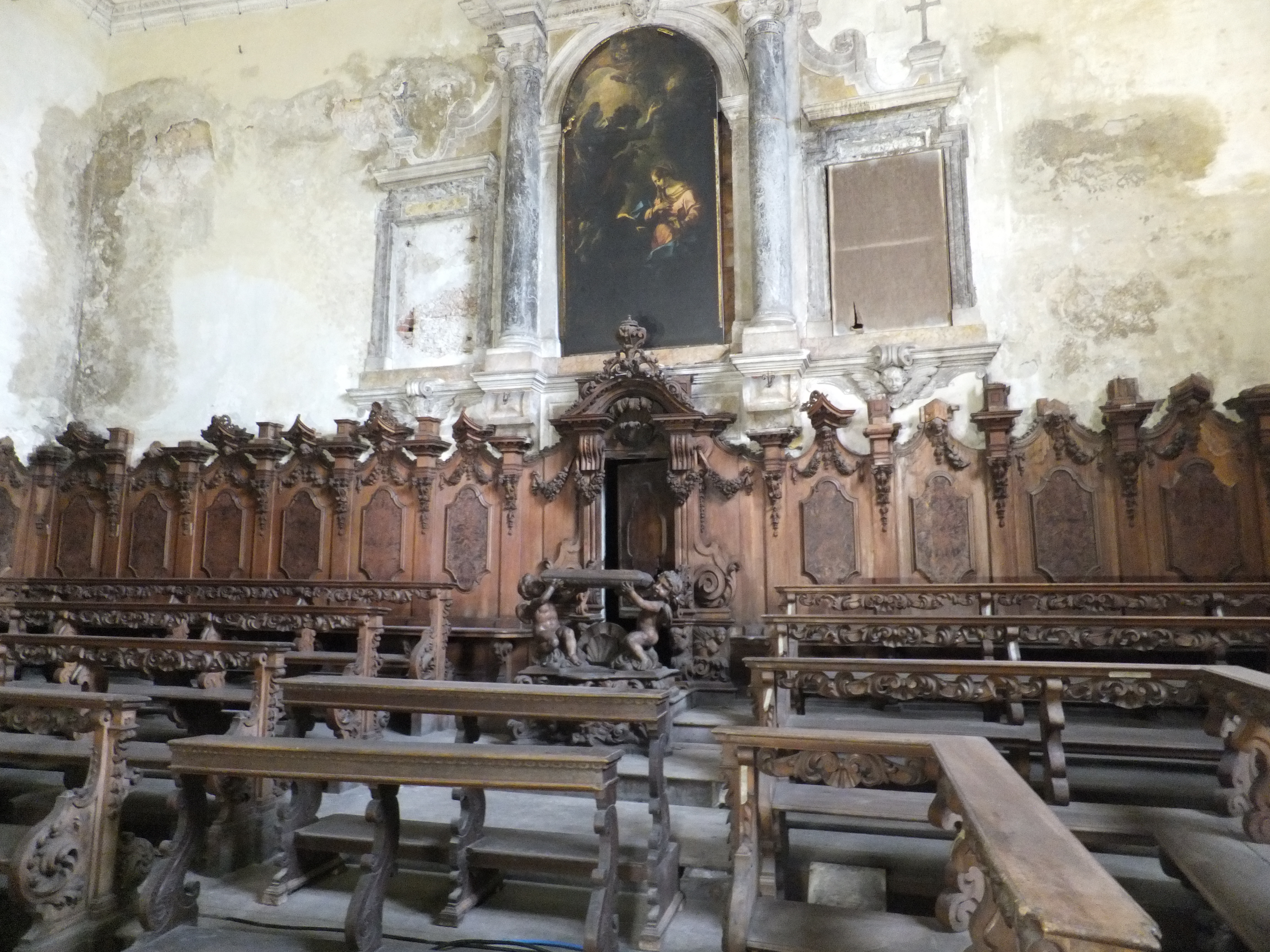 Verona, church of Saints Siro and Libera - Wooden choir